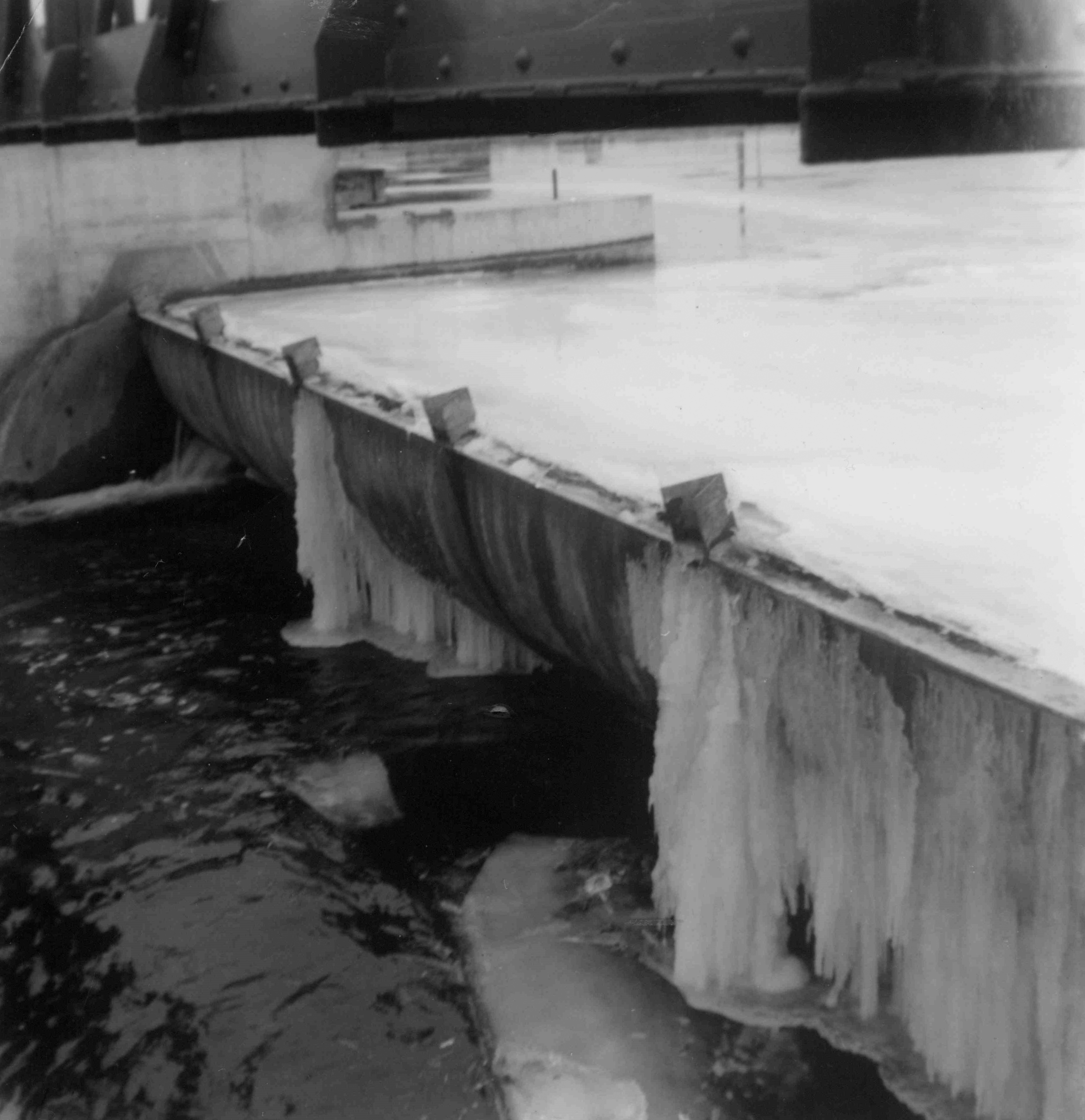 Cannes-Ecluse (France): dam on Yonne river, frozen on February 7, 1963